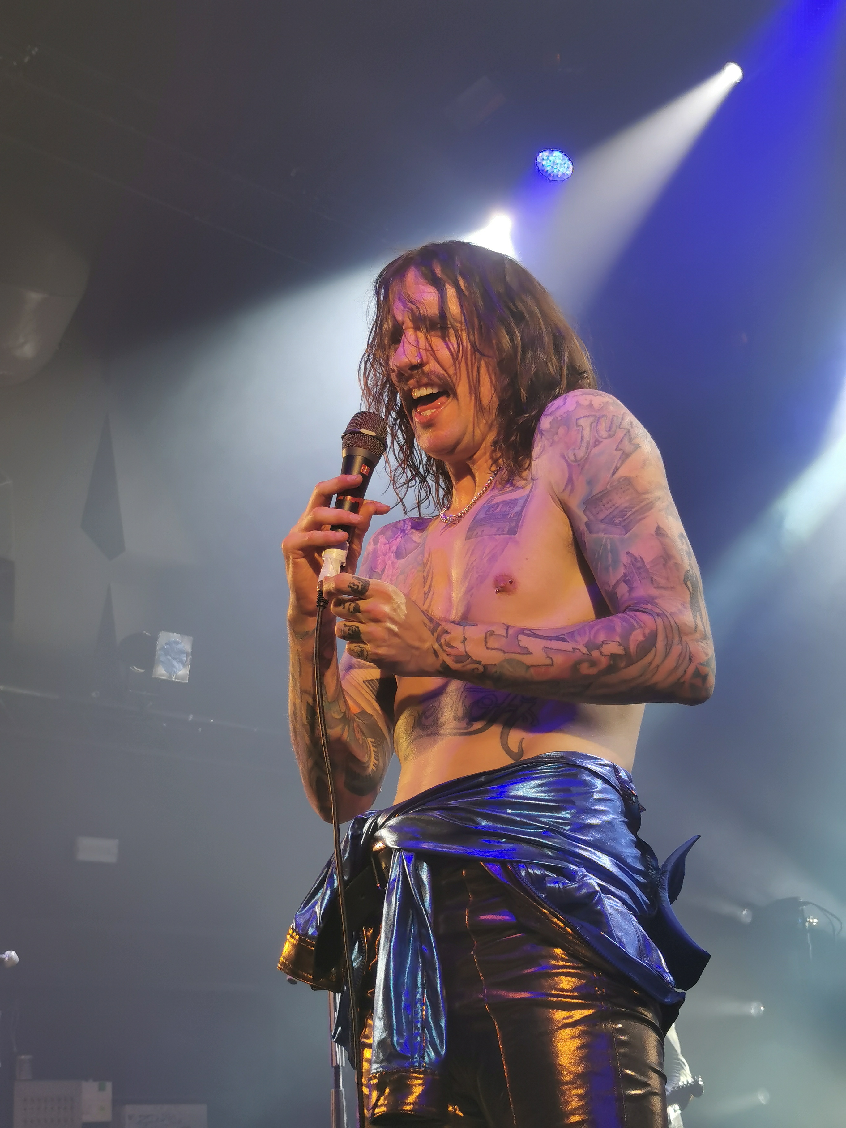 The British rock band The Darkness performing in the concert venue La Laiterie in Strasbourg, France, January 2020.